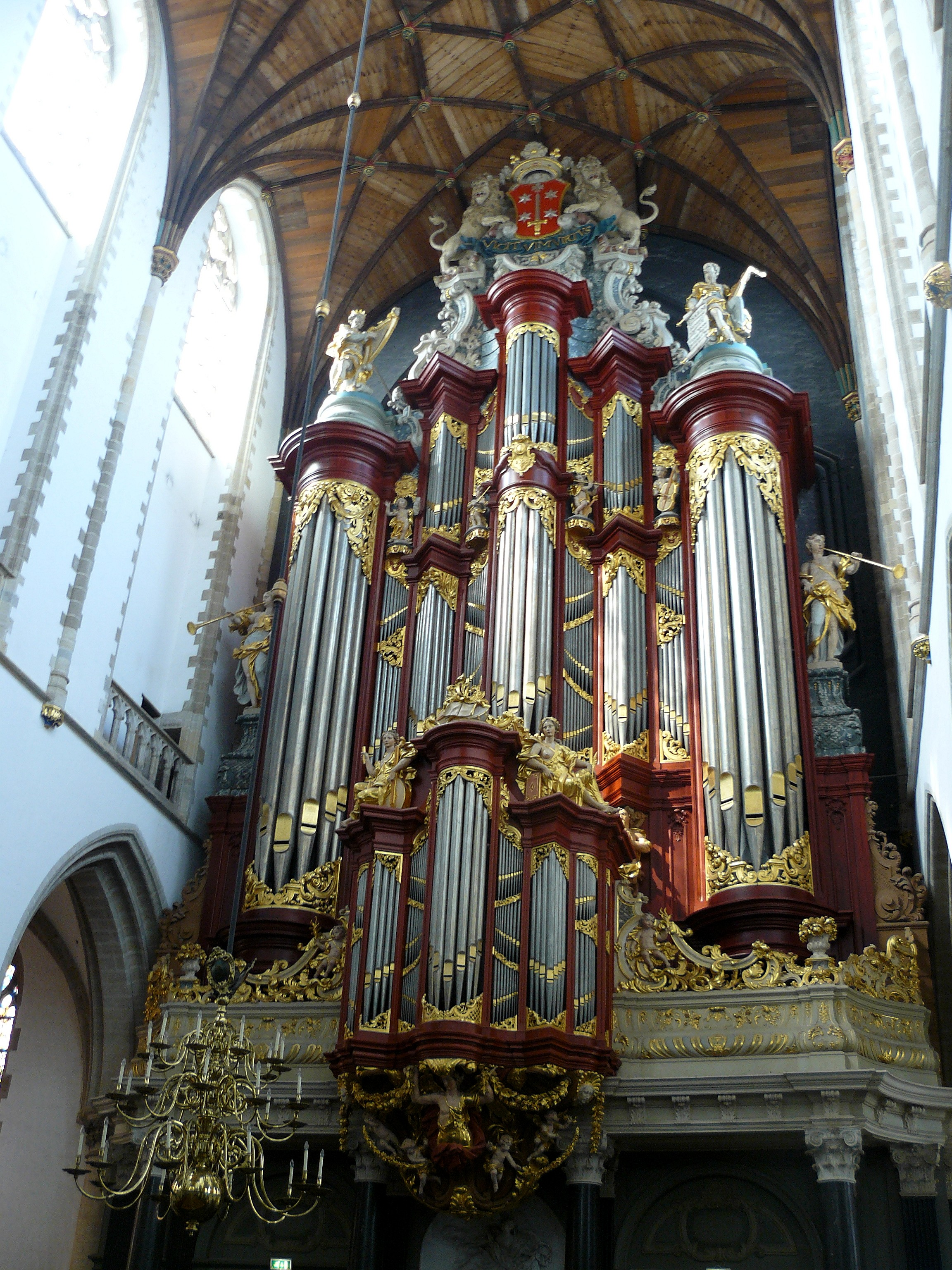 Christian Müller's Organ, built in 1738, in the St. Bavochurch of Haarlem.